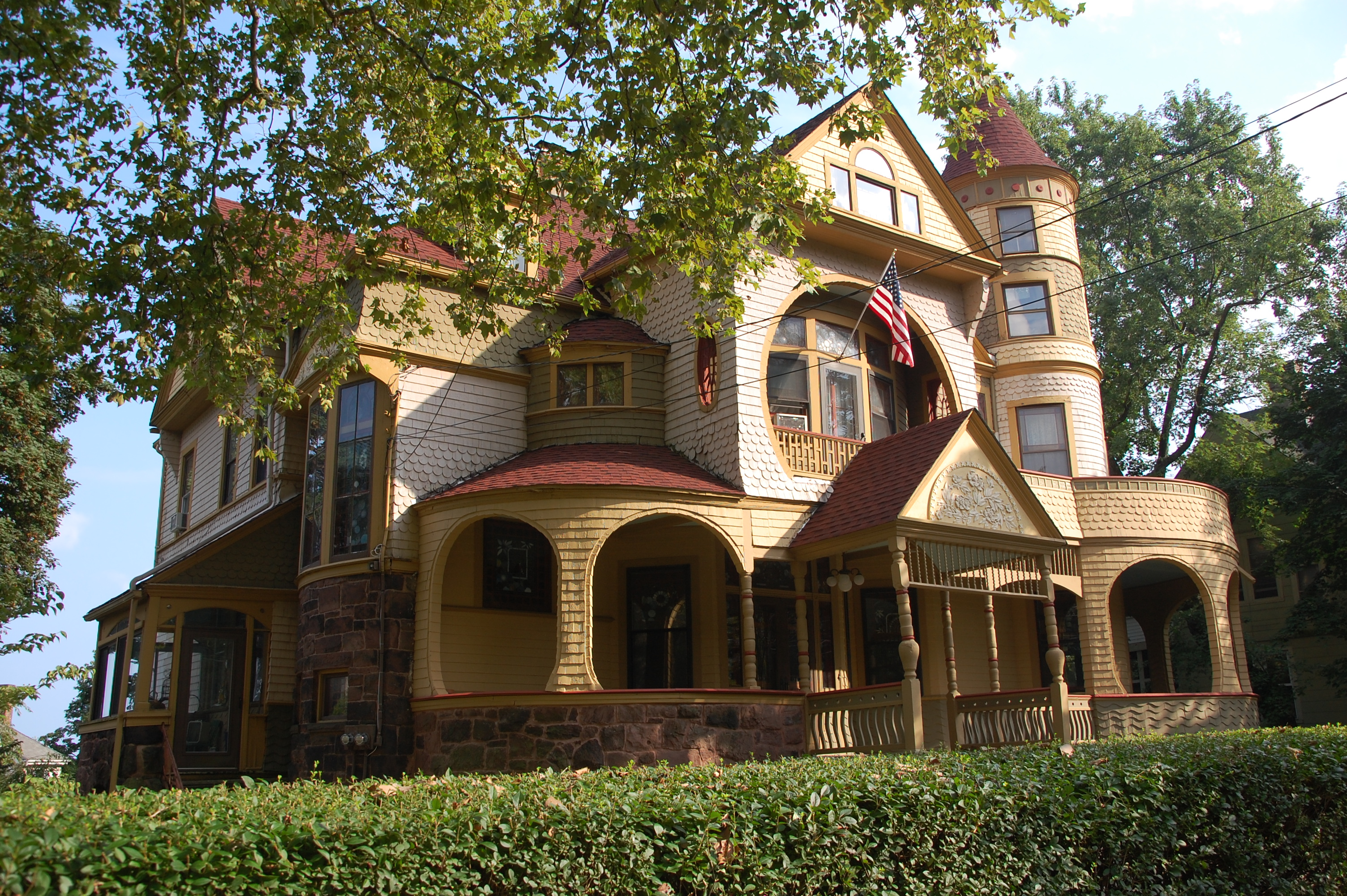 387 St. Paul's Avenue, Staten Island, NY. This house has often been used as a set for Boardwalk Empire.